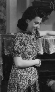 Mirtha Reid- actriz